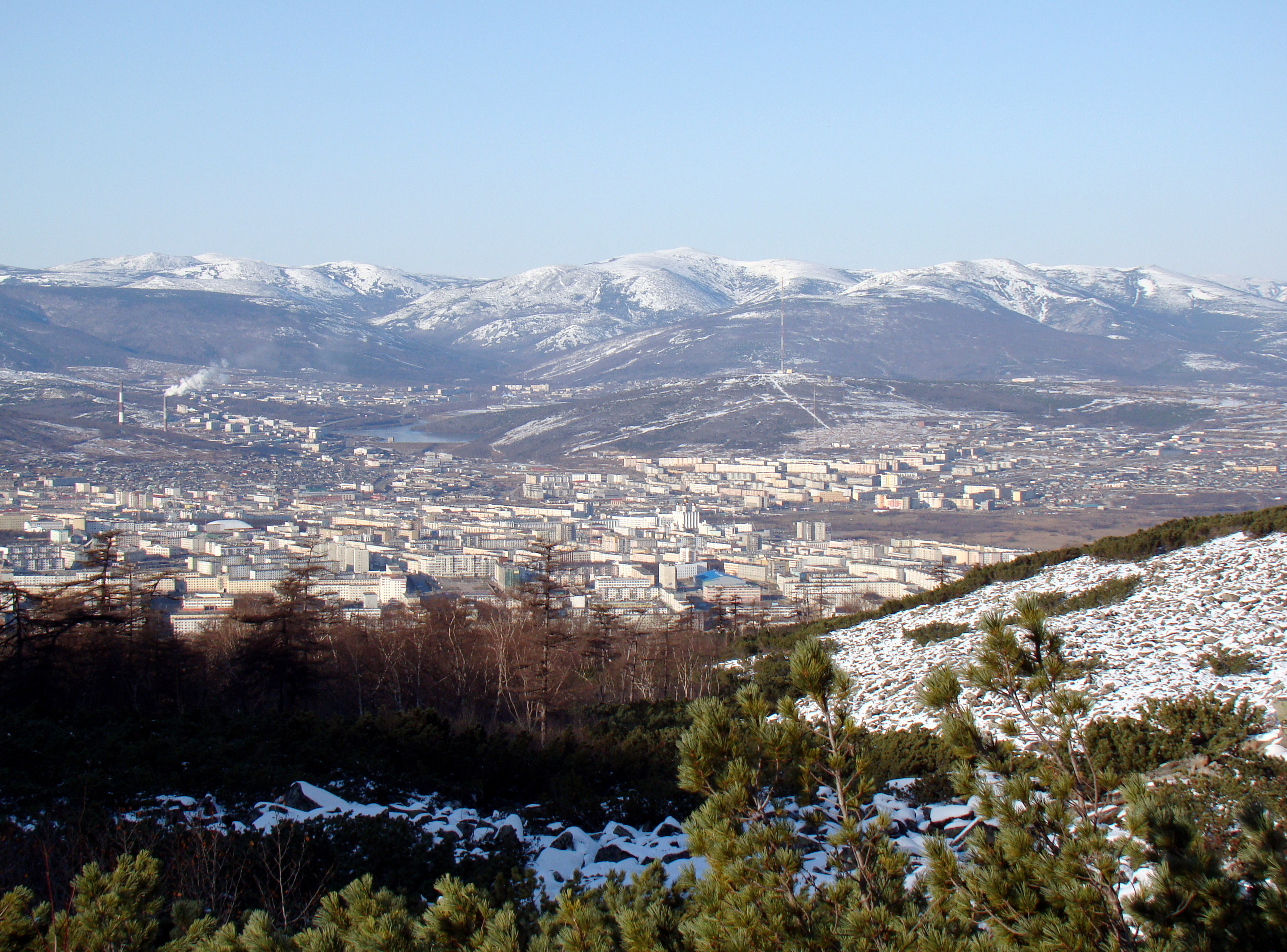 Magadan seen from Staritski peninsula